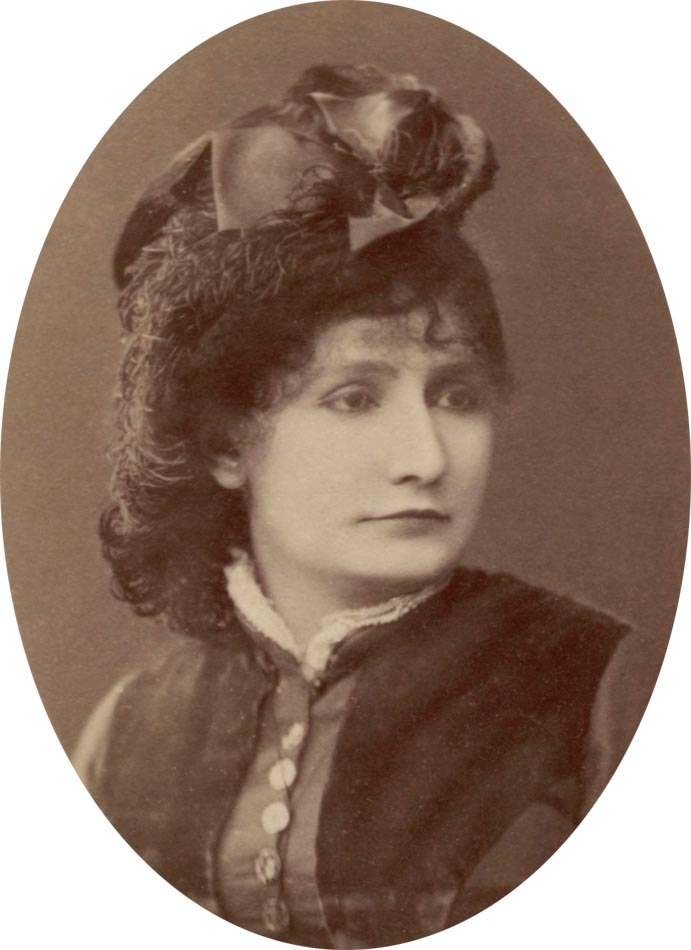 French soprano Irma Marié de l'Isle, photographic portrait by Atelier Nadar